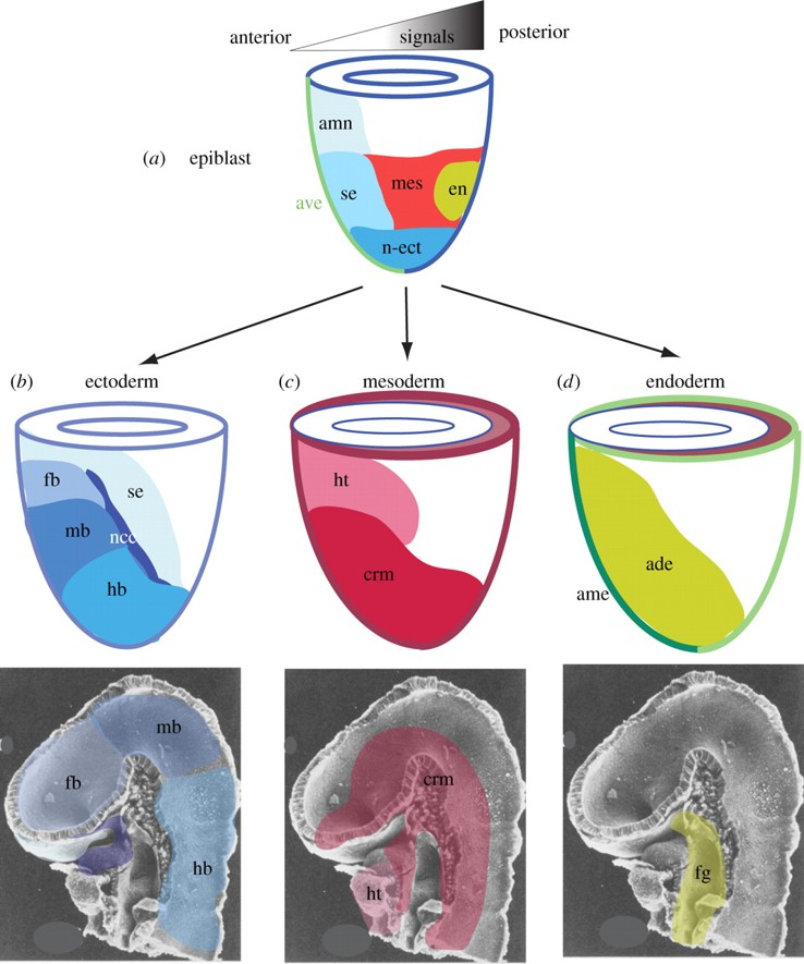 Allocation of the germ layer derivatives to the embryonic head structures. (a) Regionalization of germ layer progenitors in the epiblast elicited by the graded signalling activity across the prospective anterior–posterior plane of the embryo. (b–d) Allocation of epiblast-derived cells during gastrulation to (b) the ectoderm tissues that contribute to the brain, neural crest and the surface ectoderm, (c) the mesoderm tissues in the cranial mesenchyme and the heart, and (d) endoderm tissues of the embryonic foregut. The fate maps of the progenitor tissues of the embryonic head reveals that the domains and boundaries of the progenitors in the three germ layers are generally aligned with each other, although a clear demarcation of head versus non-head progenitors is not yet evident at the late gastrulation stage. ade, anterior definitive (gut) endoderm; ame, anterior mesendoderm; amn, amnion ectoderm; ave, anterior visceral endoderm; crm, cranial mesoderm; en, endoderm; fb, forebrain; fg, foregut; hb, hindbrain; ht, heart; md, midbrain; mes, mesoderm; ncc, neural crest cells; n-ect, neuroectoderm; se, surface ectoderm.